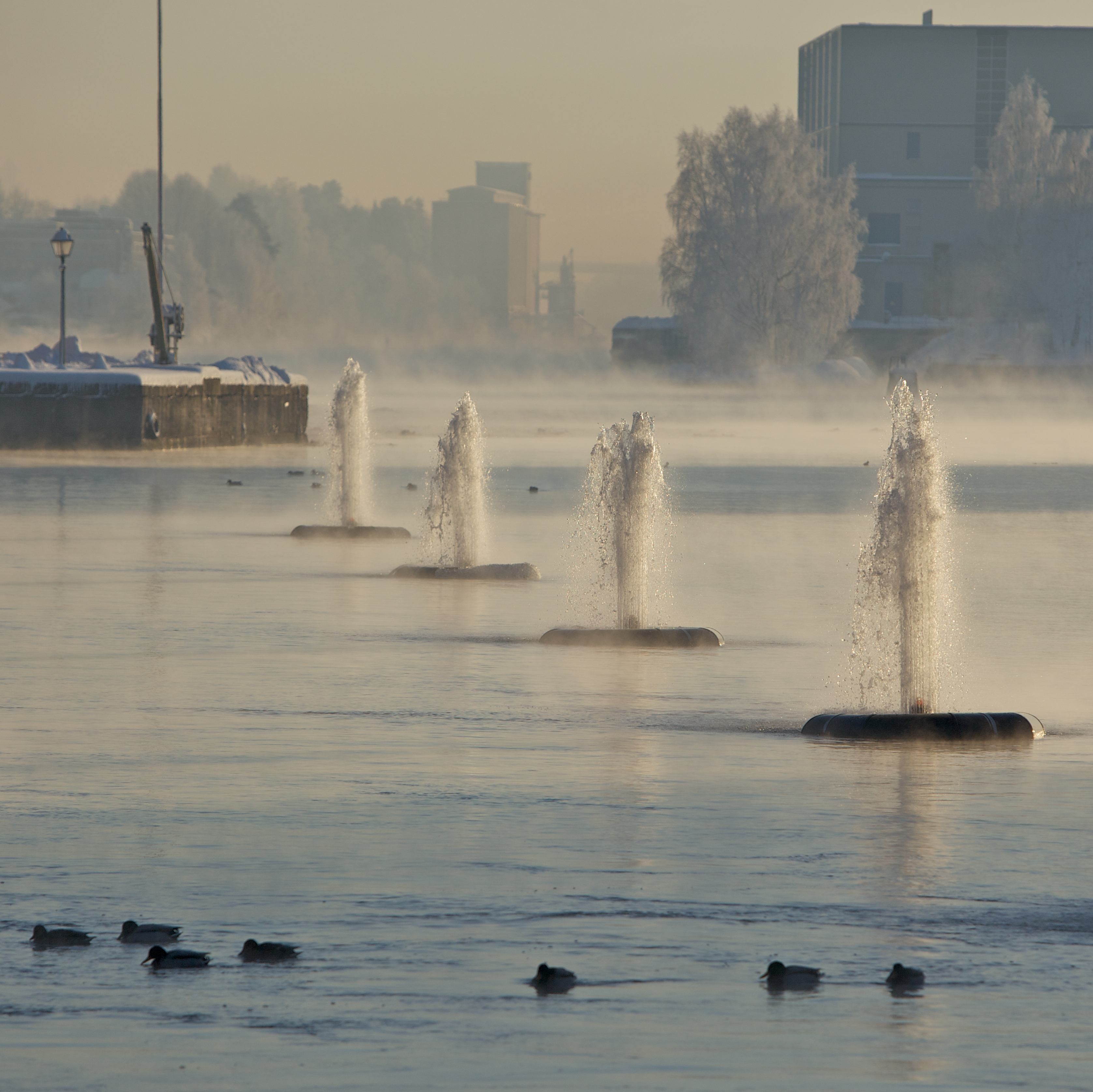 View on black